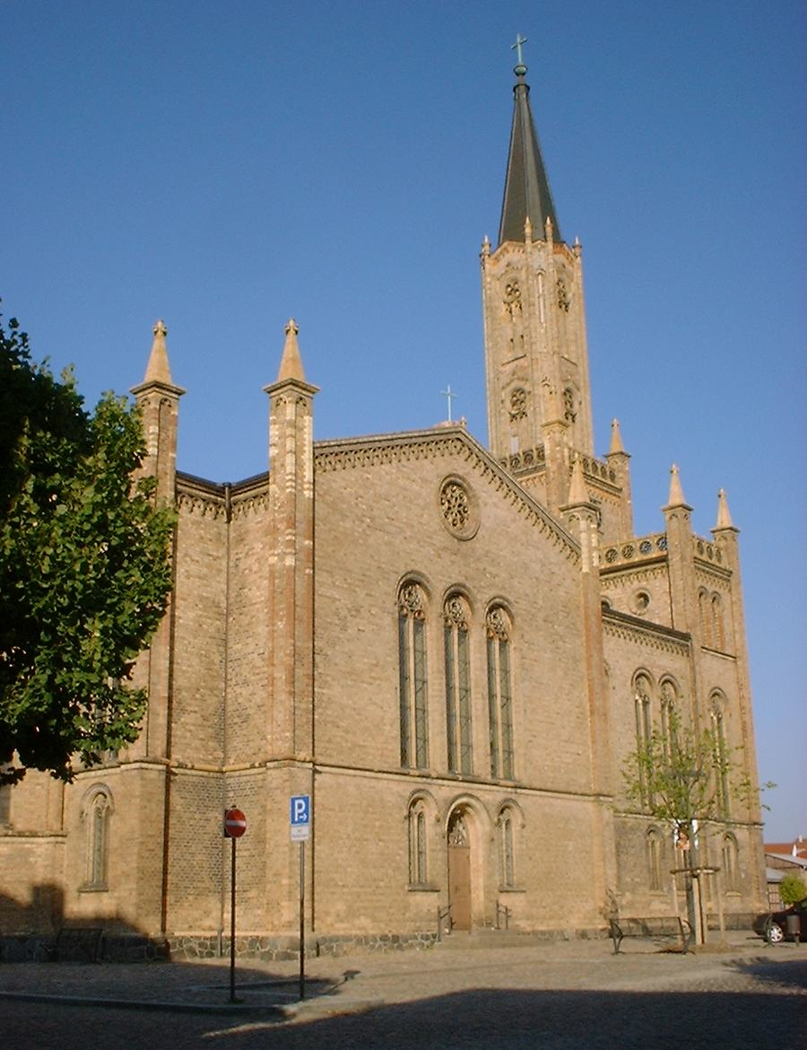 South-western view of Evangelical Lutheran Church in Fürstenberg in Brandenburg, Germany